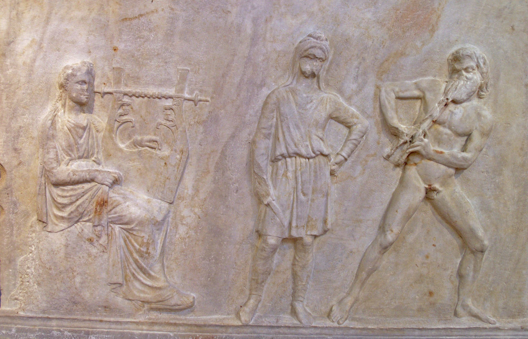 Apollo and Marsyas, relief, middle of the 4th century BC. Sitting Apollo, on the right, is playing the lyre; on the left, Marsyas is playing the flute. Standing in the middle is the Scythian who will punish Marsyas after his defeat.